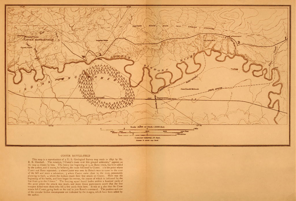 Reproduction of a U.S. Geological survey map of the Little Bighorn river and hills annotated with Custer's route over battlefield, as determined by Edward S. Curtis